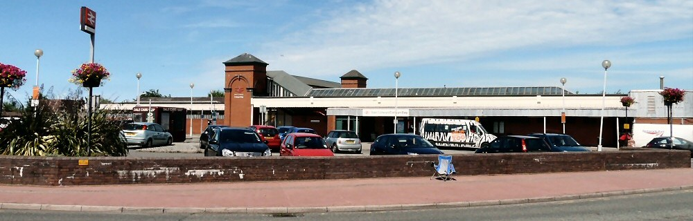 Colwyn Bay Station